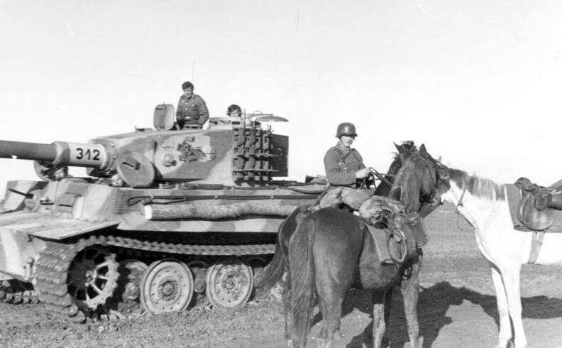 Information added by Wikimedia users.Schwere Panzer-Abteilung 505 (Charging knight insignia on turret side)[1]